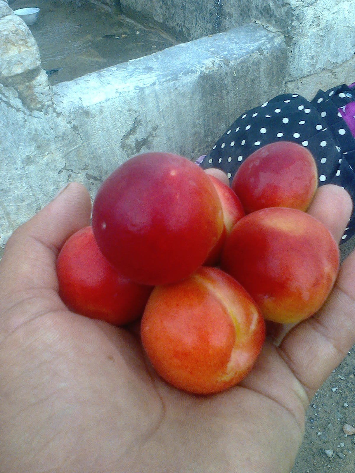 fruit in Bala Niganda